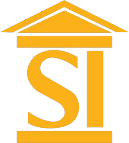 Logo for Sinematek Indonesia.